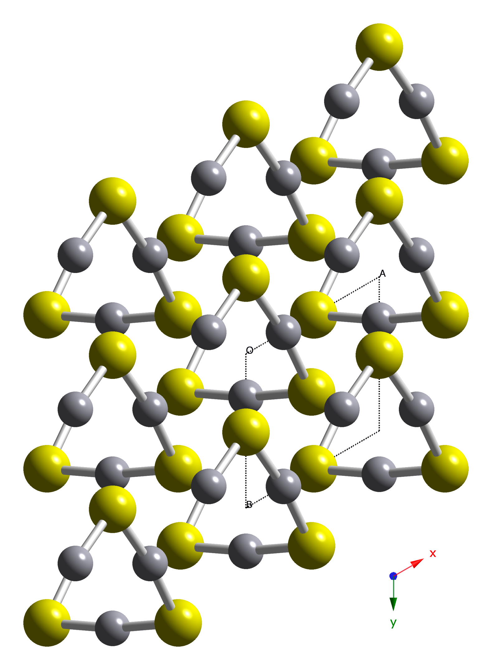 Ball-and-stick diagram of part of the crystal structure of the alpha polymorph of mercury sulfide, α-HgS. It is found in nature as the mineral cinnabar. Colour code: Mercury, Hg: grey Sulfur, S: yellow Crystal structure from Z. Krist., Supplement Issue (1999) 16, 95–95. Image generated in CrystalMaker 8.2.